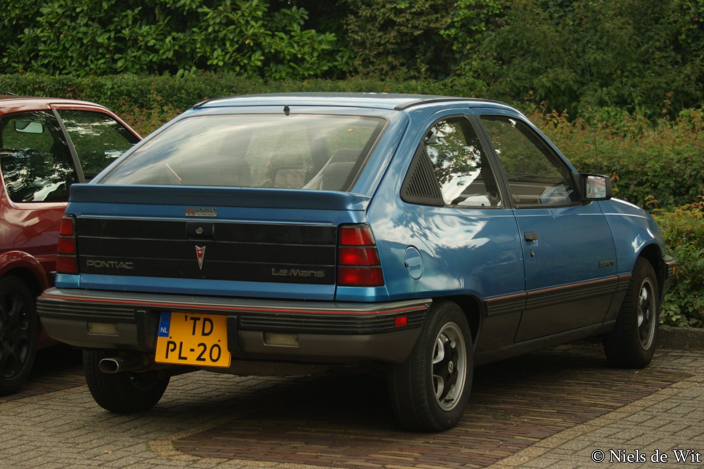 TD-PL-20